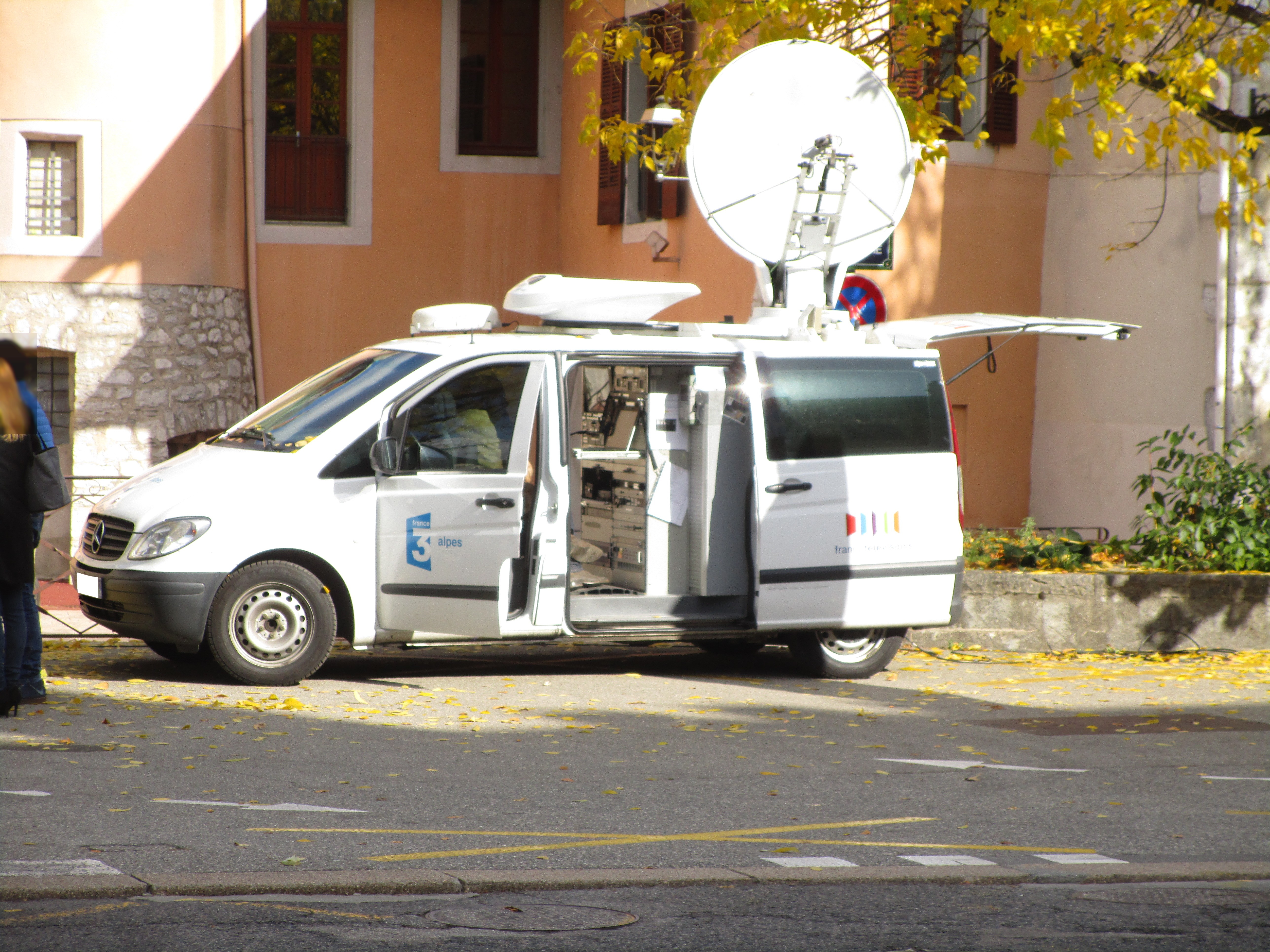 A car Mercedes-Benz Vito of France Télévisions in Chambéry on October 20, 2016.